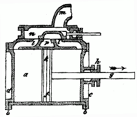 This picture of a cylinder is in the public domain. It appears in Nordisk familjebok, a classic Swedish encyclopedia, published more than 70 years ago. Unfortunately this image suffers from a slight skew. That is now fixed in the digital facsimile edition at where you are welcome to take screenshots of cylinders, gatling guns and more.